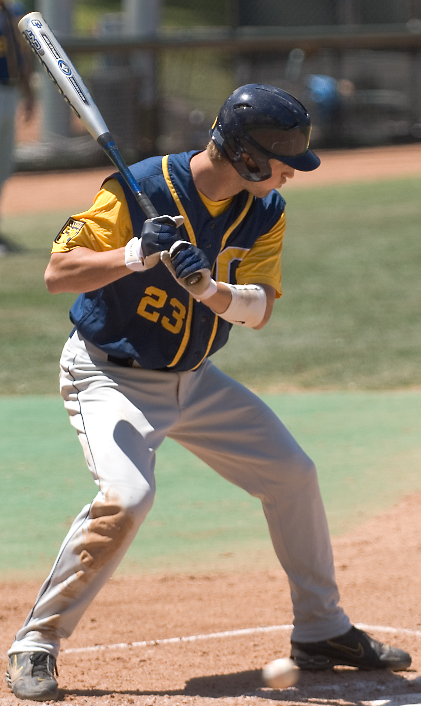 Jeff Kobernus of the California Golden Bears watches a pitch at his feet during a 2007 game.